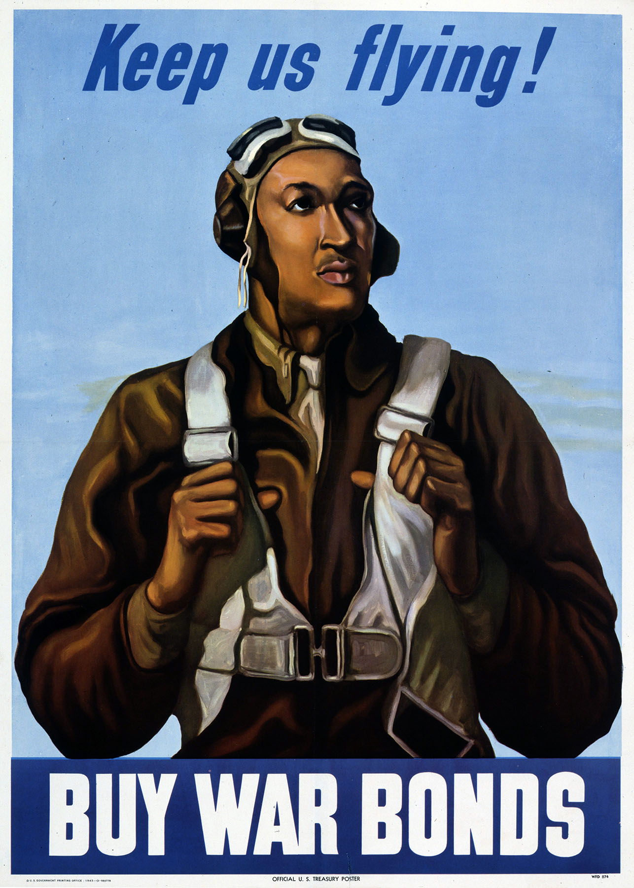 "Keep us flying. Buy War Bonds." Color poster of a Tuskegee Airman (probably Lt. Robert W. Diez) by an unidentified artist. 1943. source